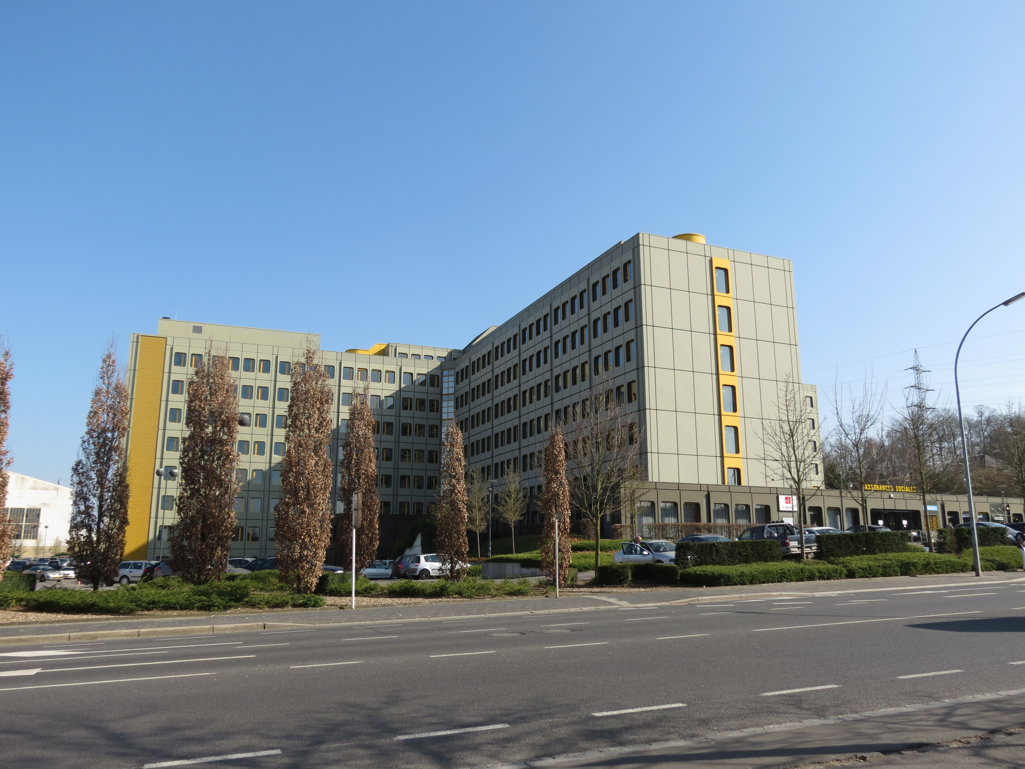 The building of Assurances sociales on route d'Esch in Luxembour City.